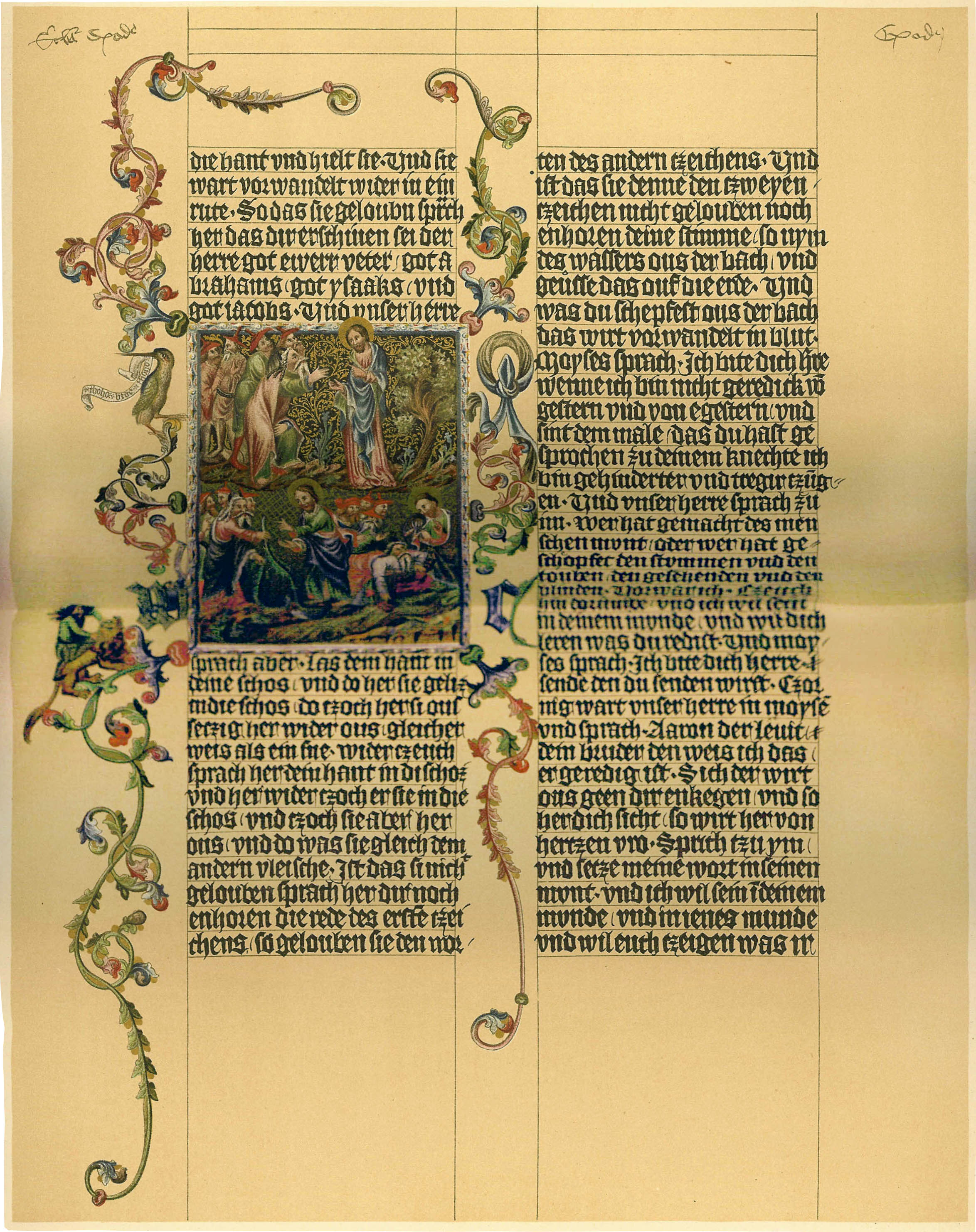 A page from the Wenzel Bible From the caption: Printed by the Bibliographisches Institut, Leipzig. A PAGE FROM THE "WENZEL BIBLE". From the Manuscript (c. 1400) in the Imperial Library at Vienna. The passage is described there as being from the Book of Moses, ch. IV., v.4–15 (=Exodus 4:4-15).